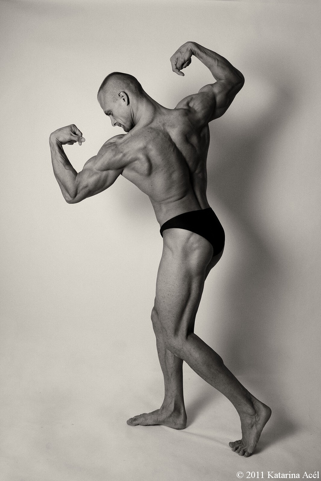 Pózovanie